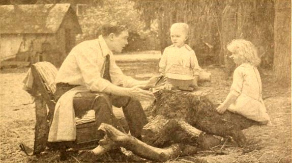 Still for the American film Crooked Straight (1919) with Charles Ray, from page 75 of the march 1920 Motion Picture Magazine.